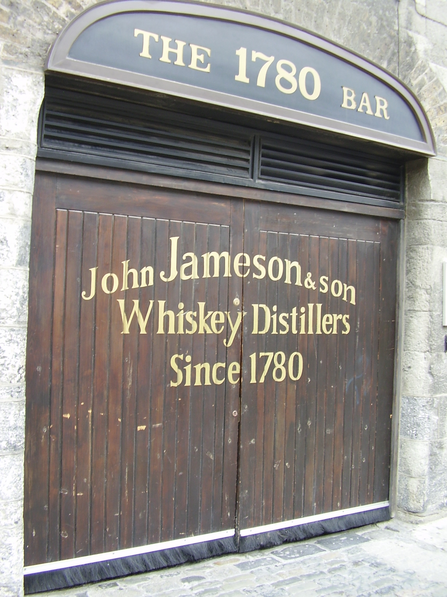 My own photo from the Jameson whiskey distillery museum, Dublin, Ireland.